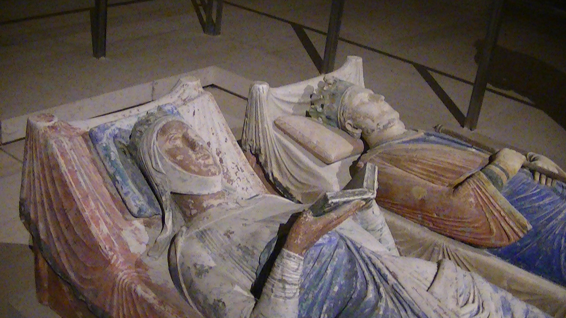 Effigies of Eleanor of Aquitaine and Henry II of England in the church of Fontevraud Abbey